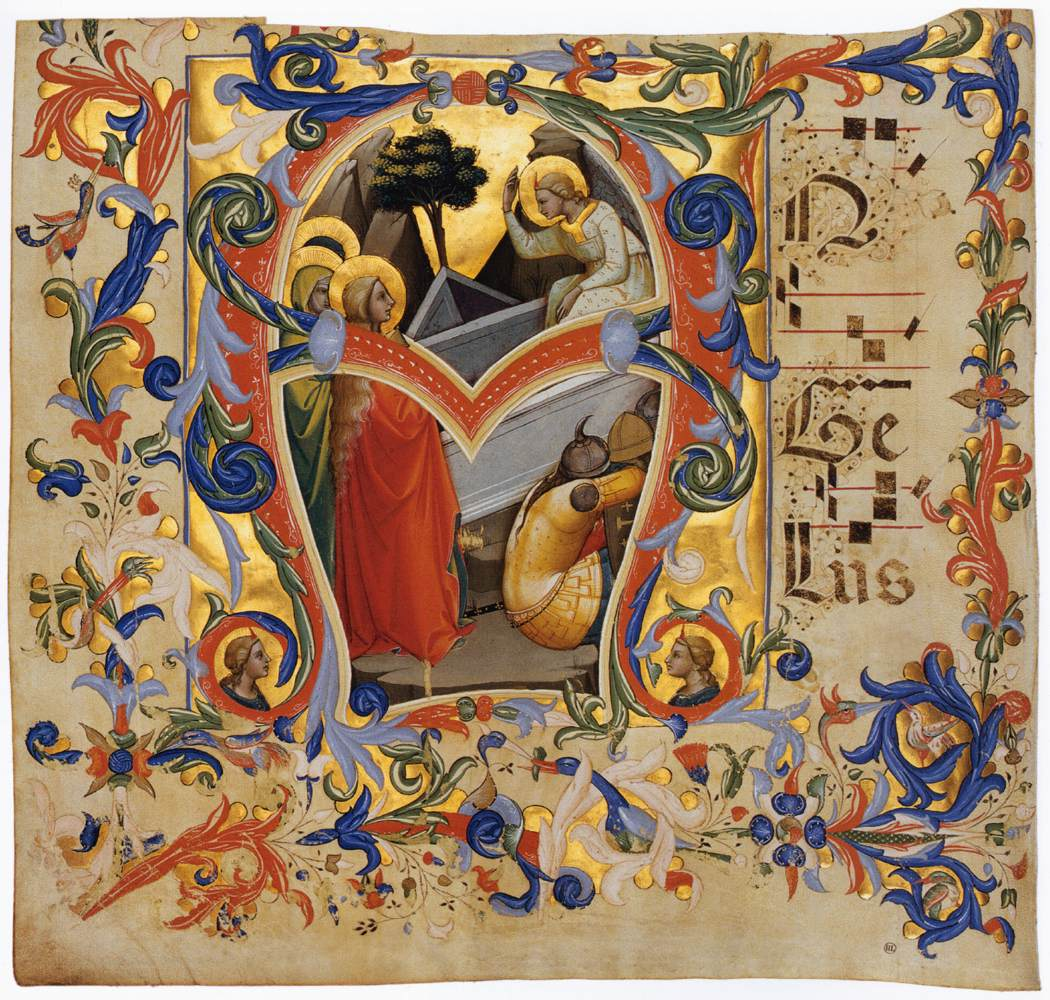 The Three Marys at the Tomb (1396) by Lorenzo Monaco, Illumination on vellum, 46 x 48 cm, Musée du Louvre, Paris